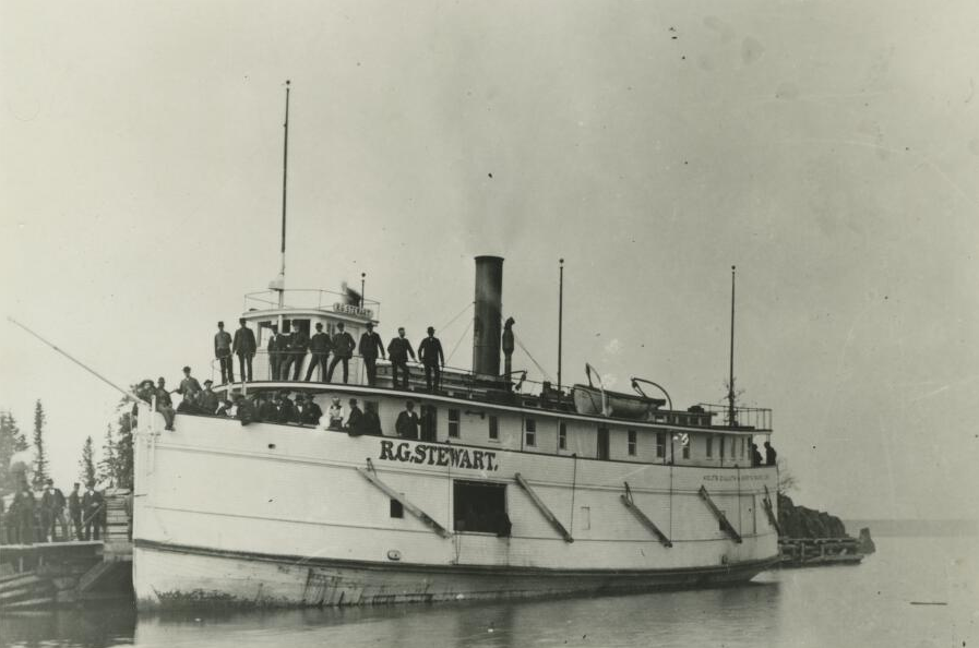 The steamer R.G. Stewart prior to her sinking